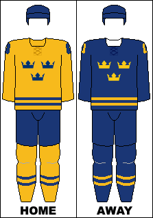 The home and away jerseys of the Swedish national ice hockey team used at the 2014 Winter Olympics.